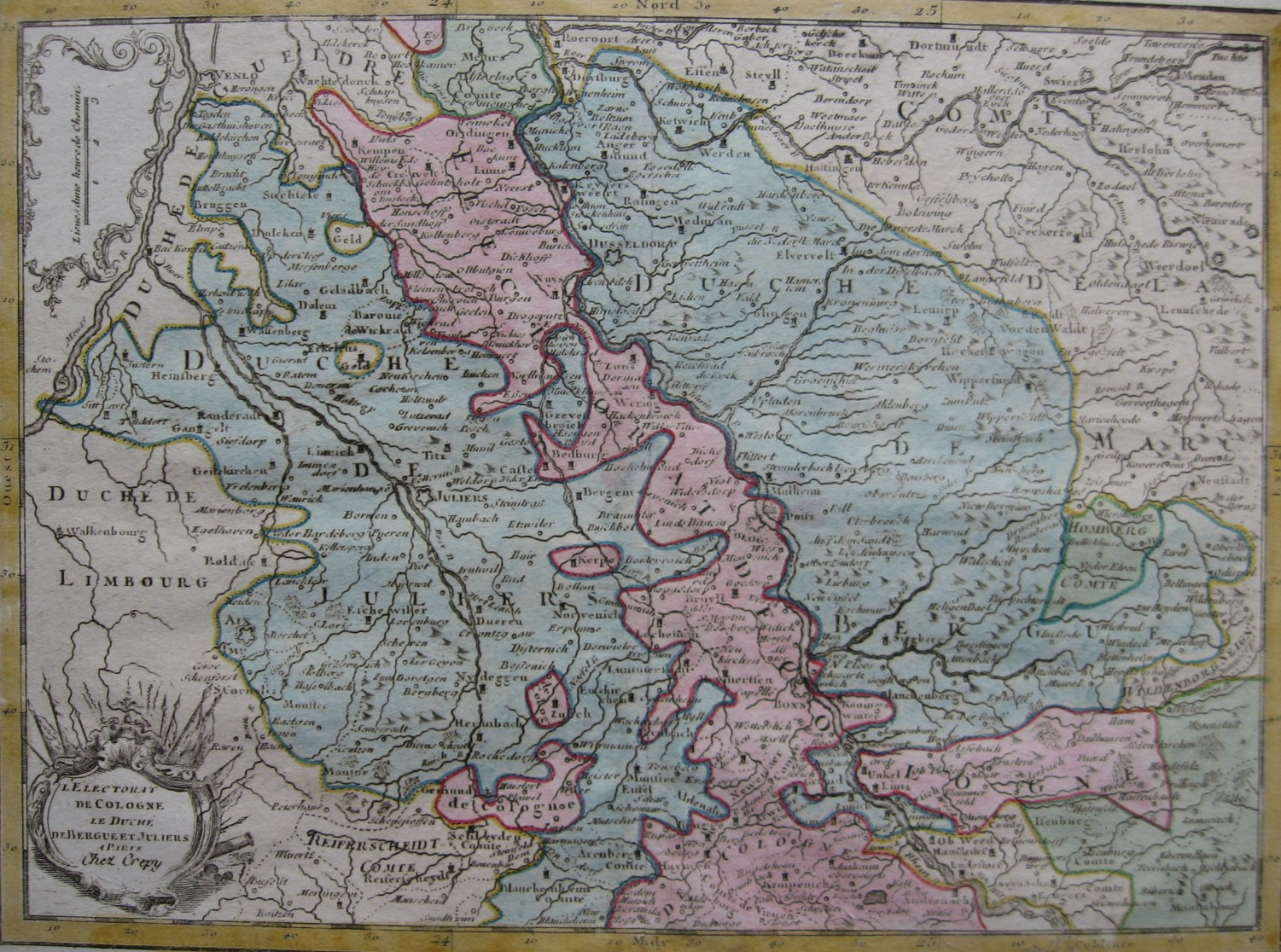 Map by Le Rouge (1748) published by Crépy in 1767.